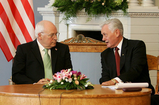 Vice President Dick Cheney listens to Lithuanian President Valdas Adamkus during a bilateral meeting held at the Presidential Palace in Vilnius, Lithuania, May 3, 2006. Presidential Palace.